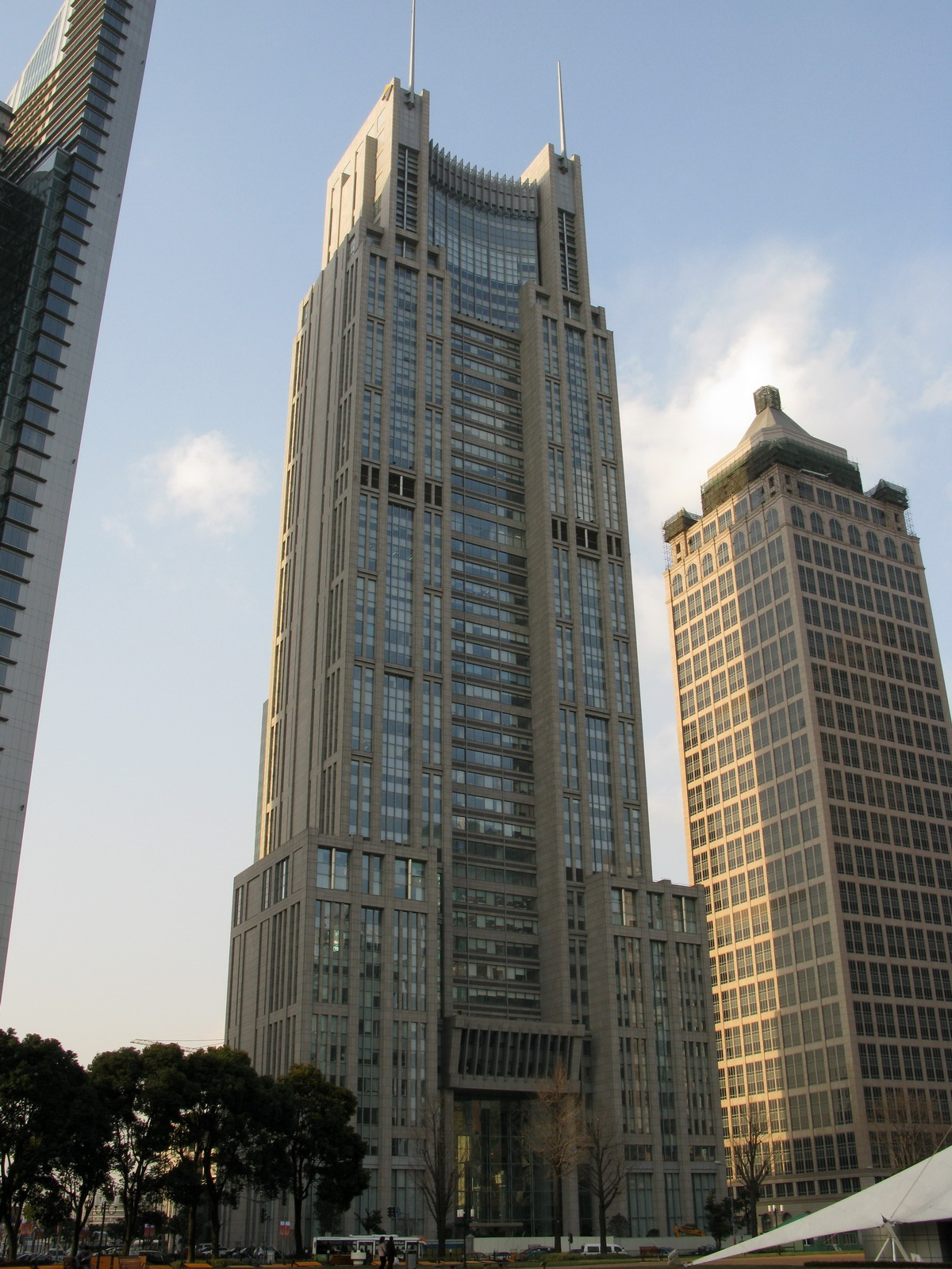 上海银行大厦 Bank of Shanghai Headquarters